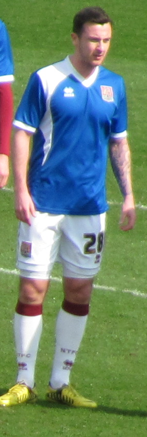 Pictured during the 2-2 draw between Port Vale and Northampton Town on 20 April 2013.